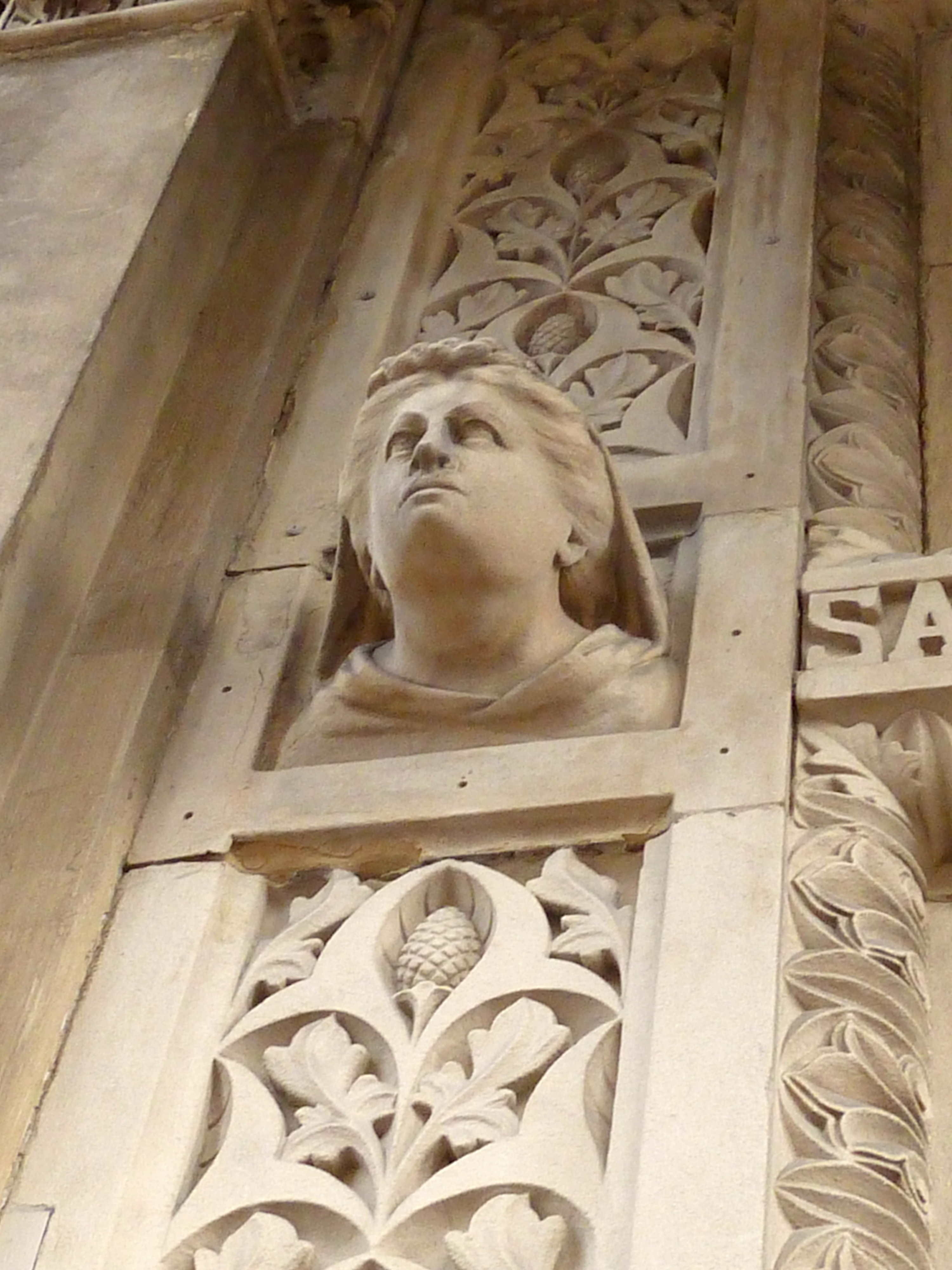 Offices built for the Leeds branch of Scottish Widows insurance company in 1869, designed by architect George Corson. The stone carving was executed by Mawer and Ingle. The carved lettering over the door - "St Andrews Chambers" - may have been added later. Showing a Scottish Widow head.